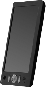 Prototype of India's $35 Tablet.